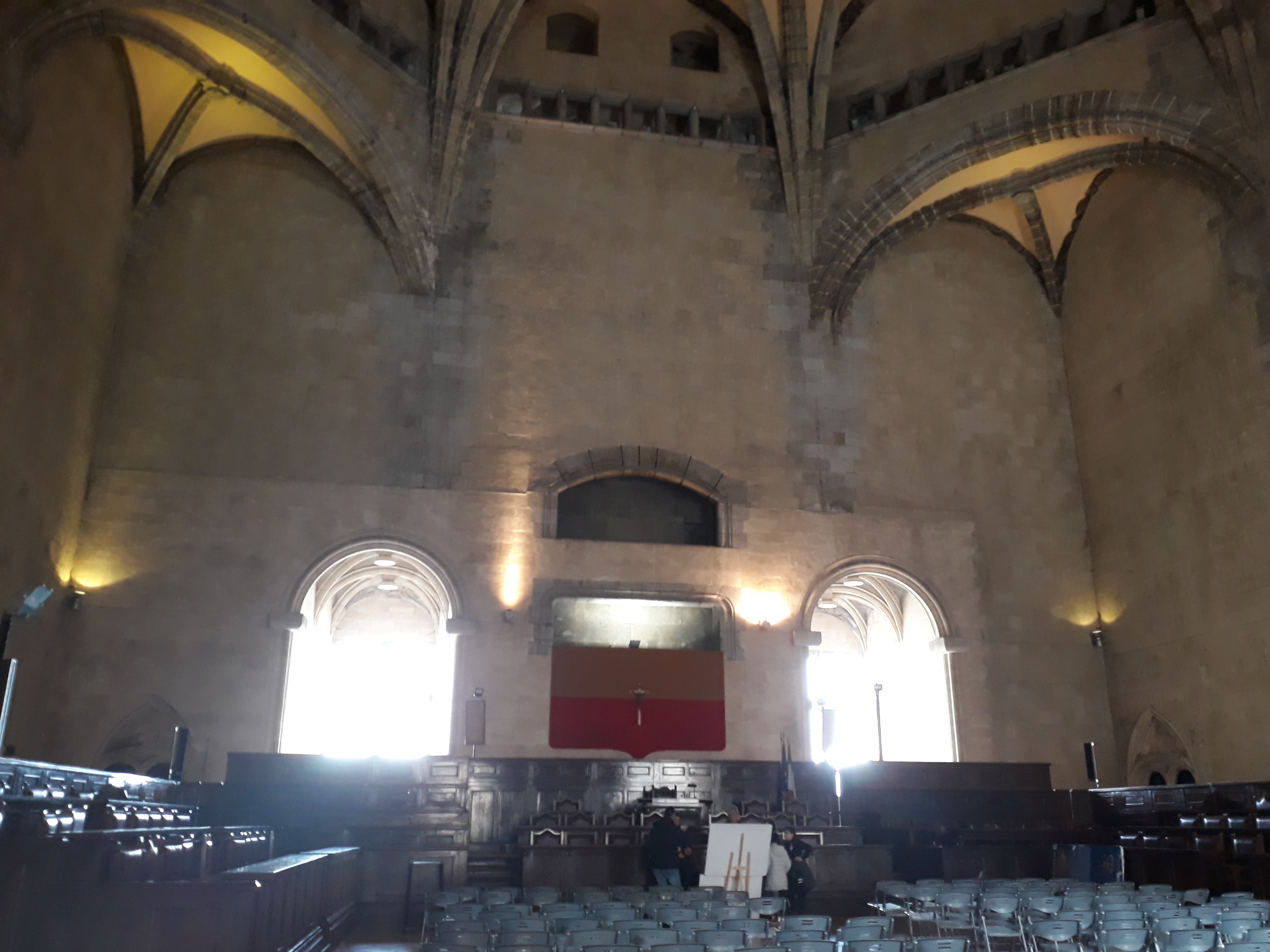 Castel Nuovo (New Castle), in Naples, Italy.